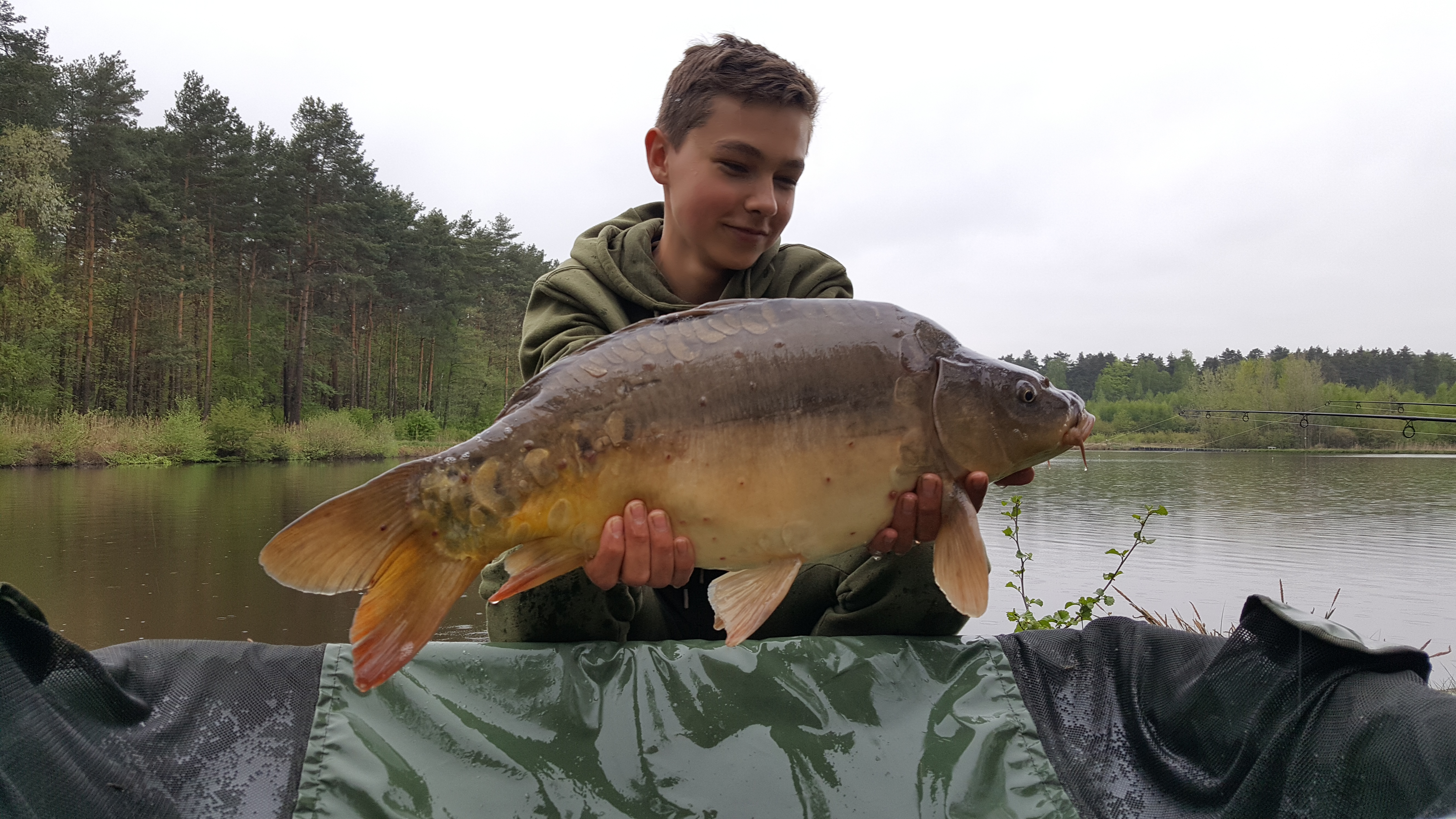 Might be useful when it comes to carp fishing